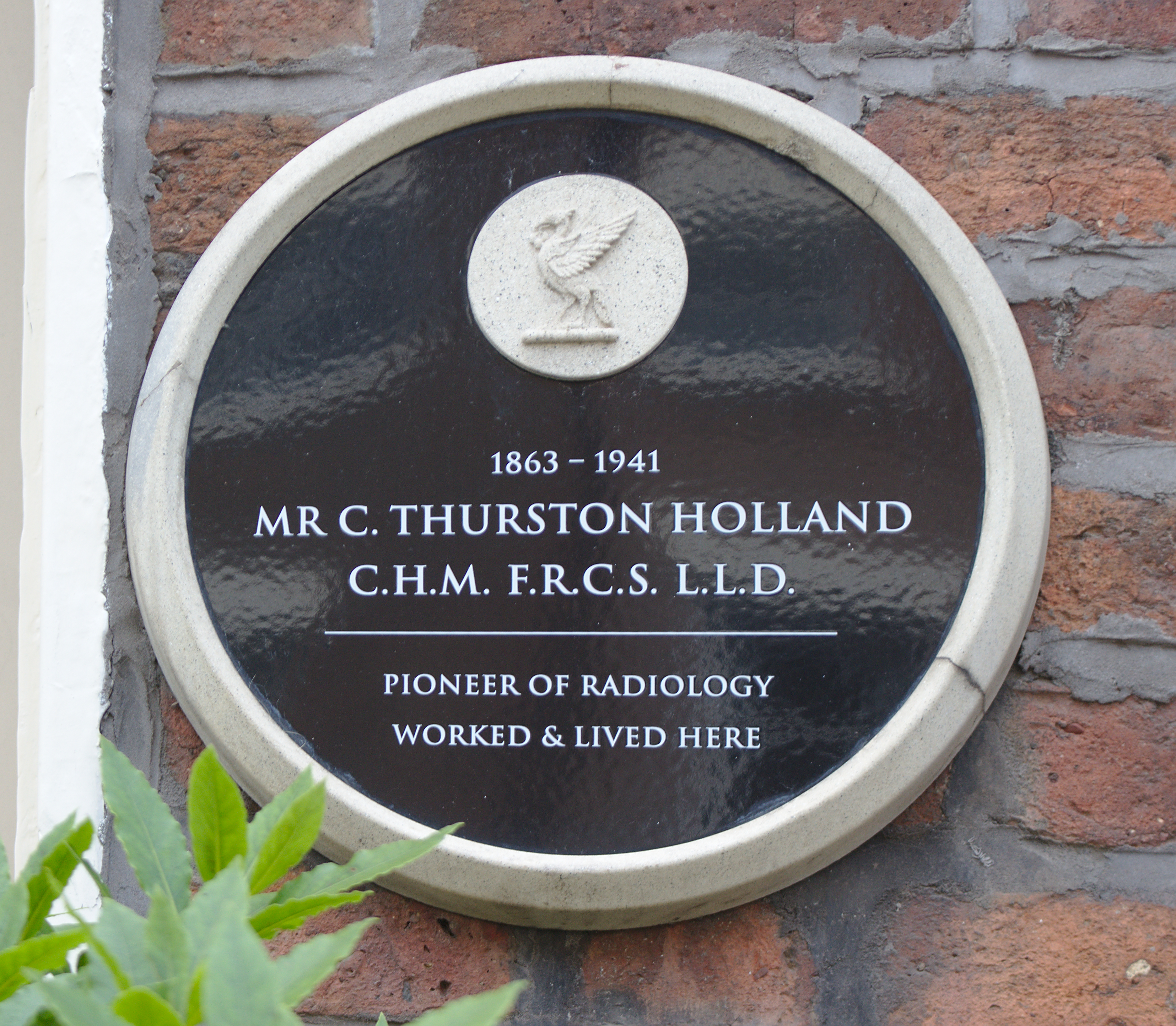 Plaque to Charles Thurstan Holland on 43 Rodney Street with incorrect spelling of his name.